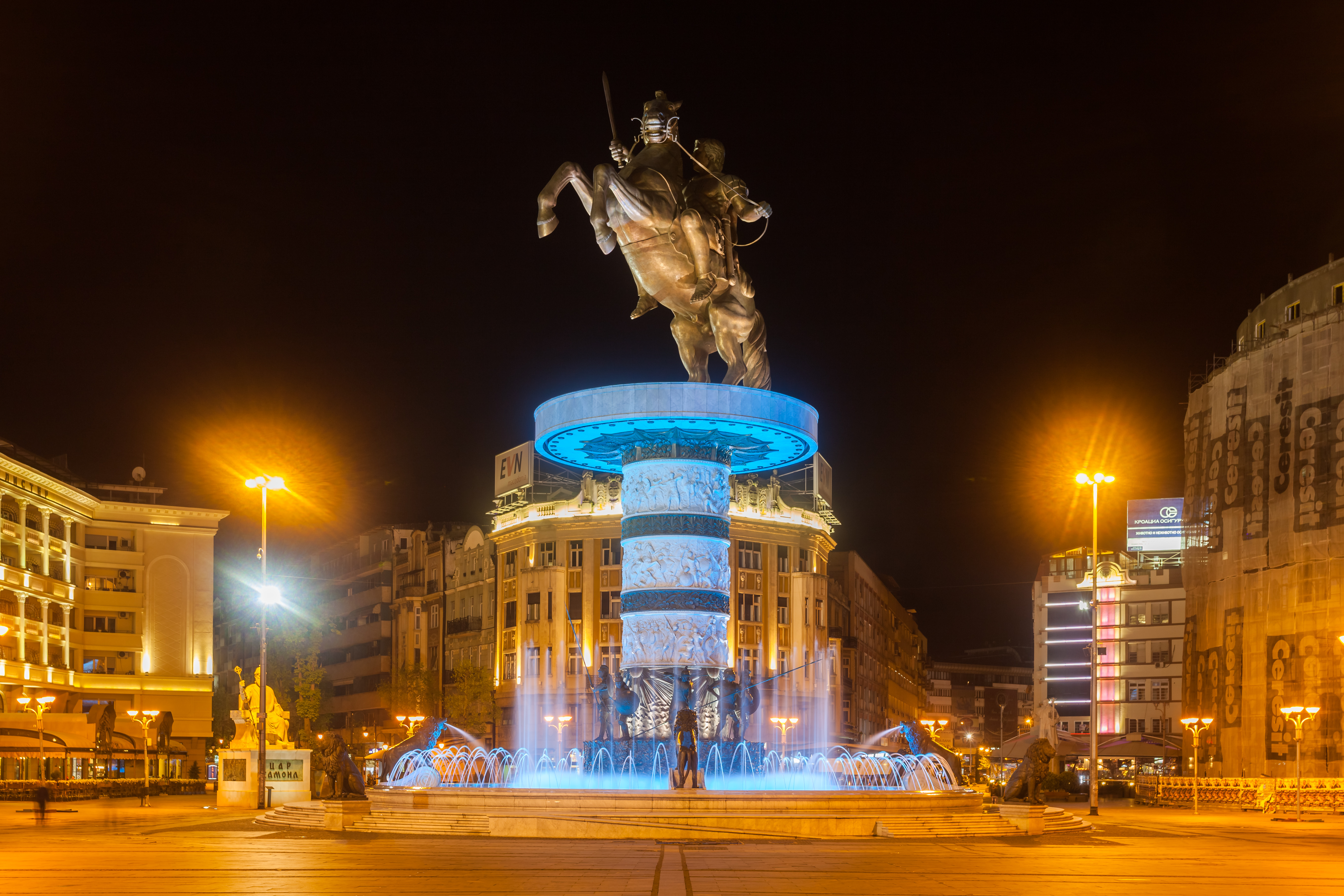 Warrior on Horseback, Skopje, Macedonia